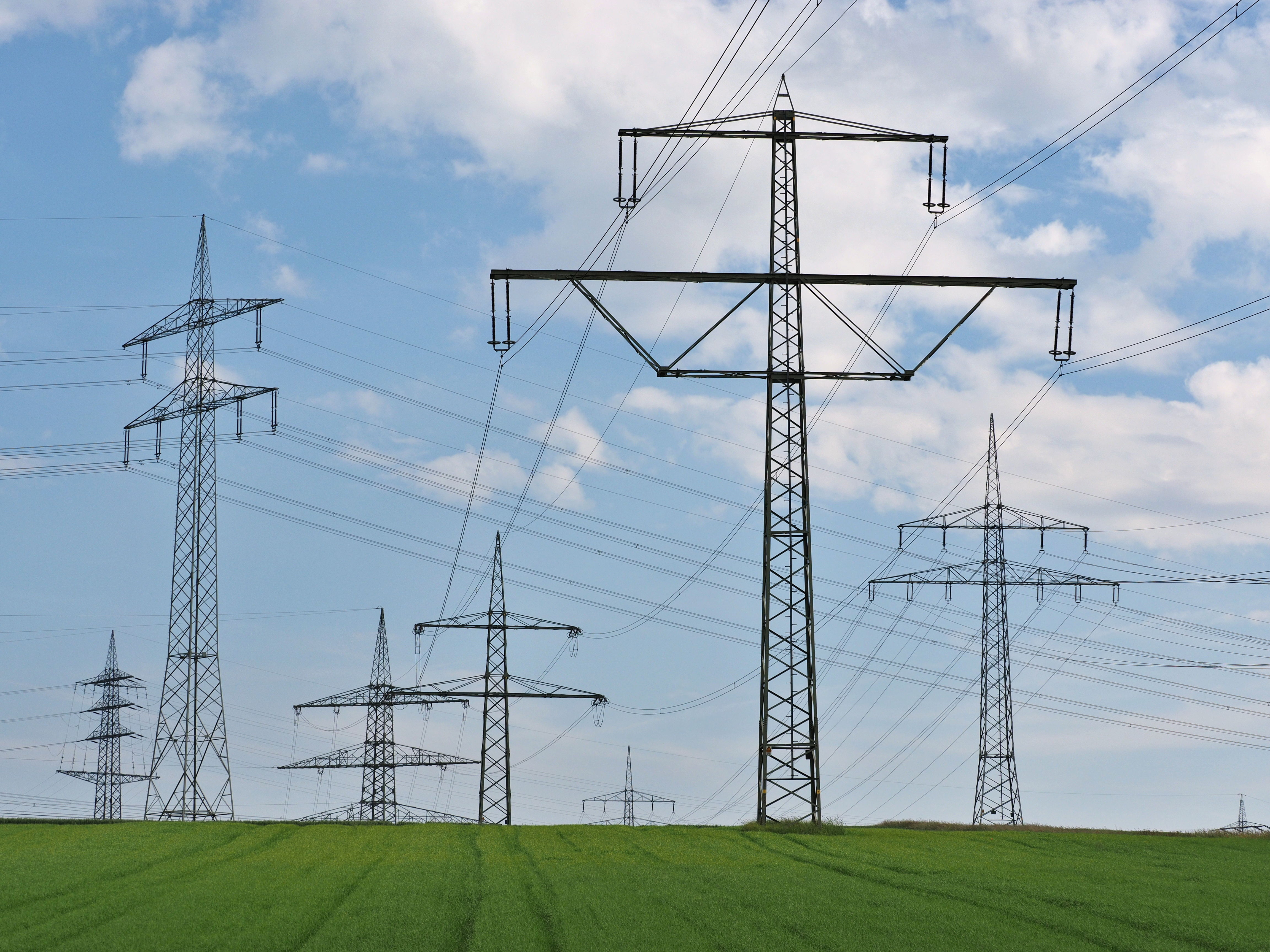 Near Leingarten, the Nord-South Powerline (viewed from the north) joins a section of multi-level pylons until Lauffen, so the original pylons (last of which is in the foreground) have been dismantled.